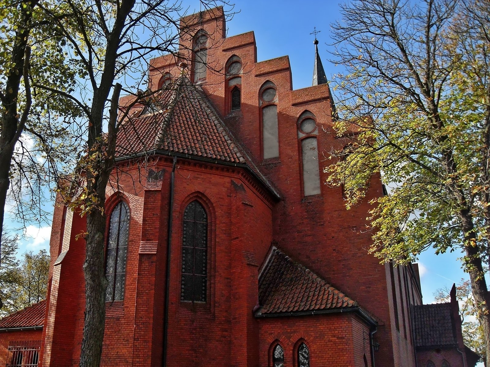 Church of the Nativity of the Virgin Mary in Łąg, Poland